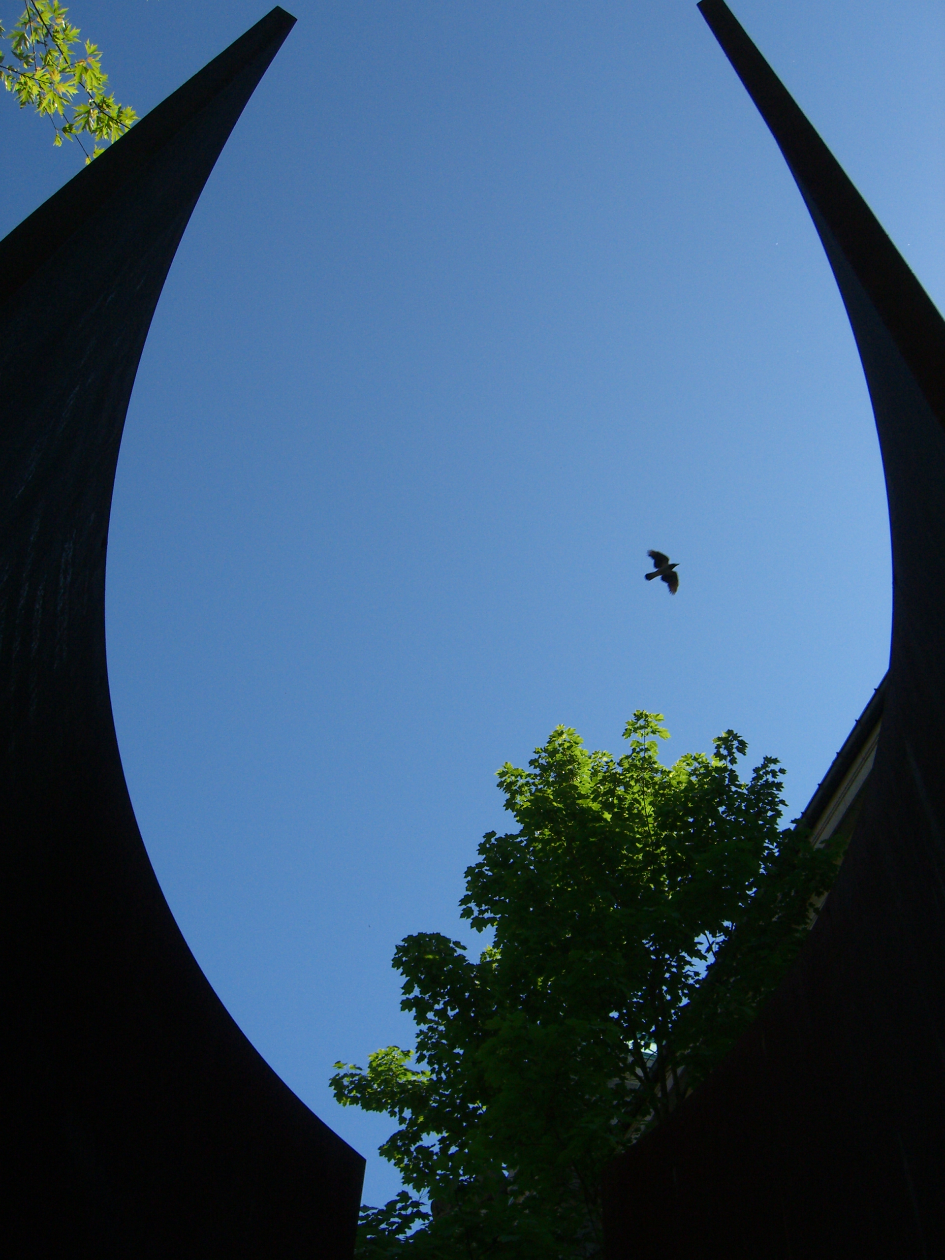 Outside the Contemporary Art Museum in Oslo